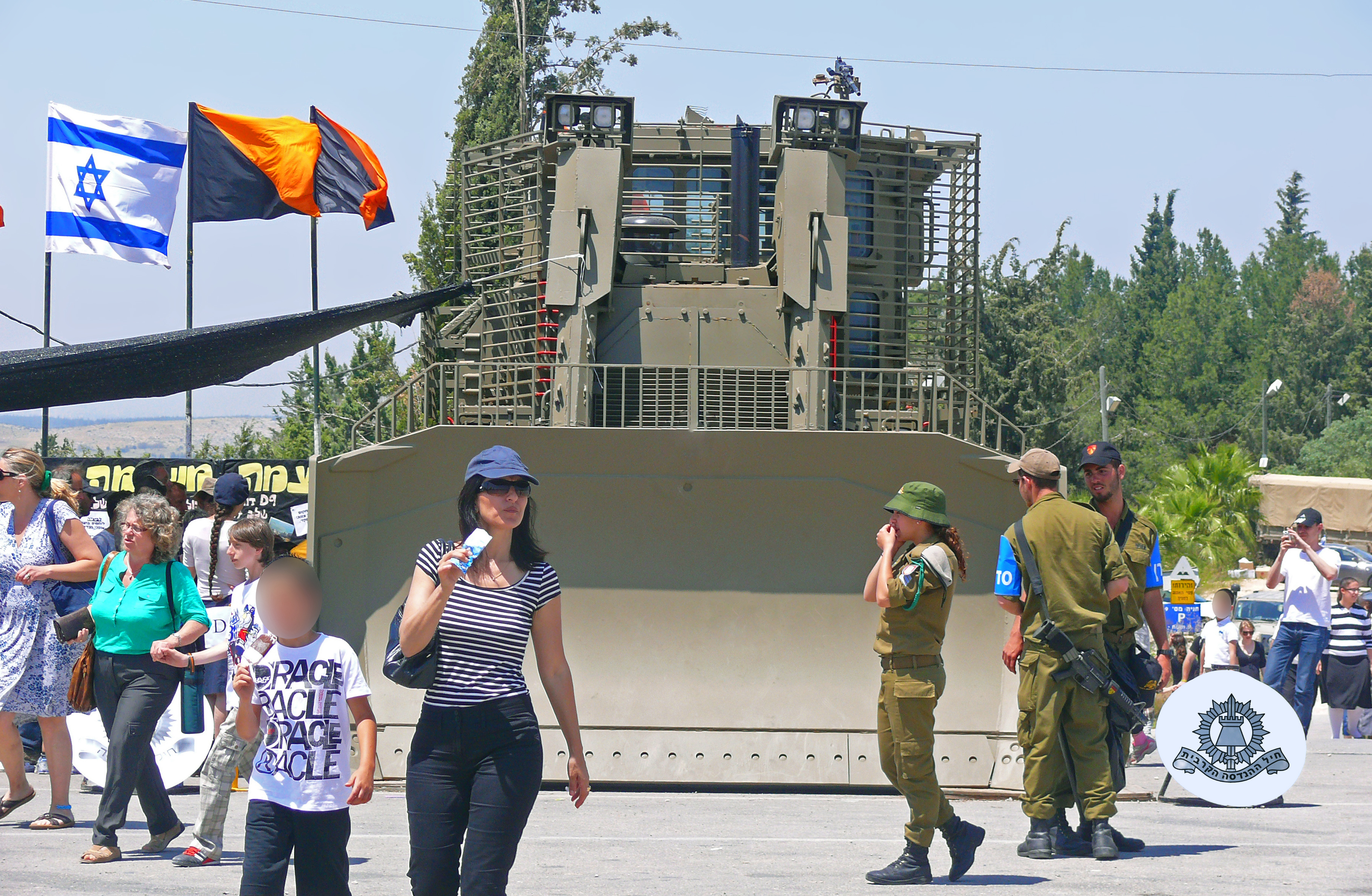 Many visitors at "Yad La-Shiryon" (Armored Corps Memorial) Latrun (Israel) looking at an IDF Caterpillar D9 armored bulldozer, during the IDF Ground Command (Army) exhibition of 64th Yom Ha'atzmaut of Israel